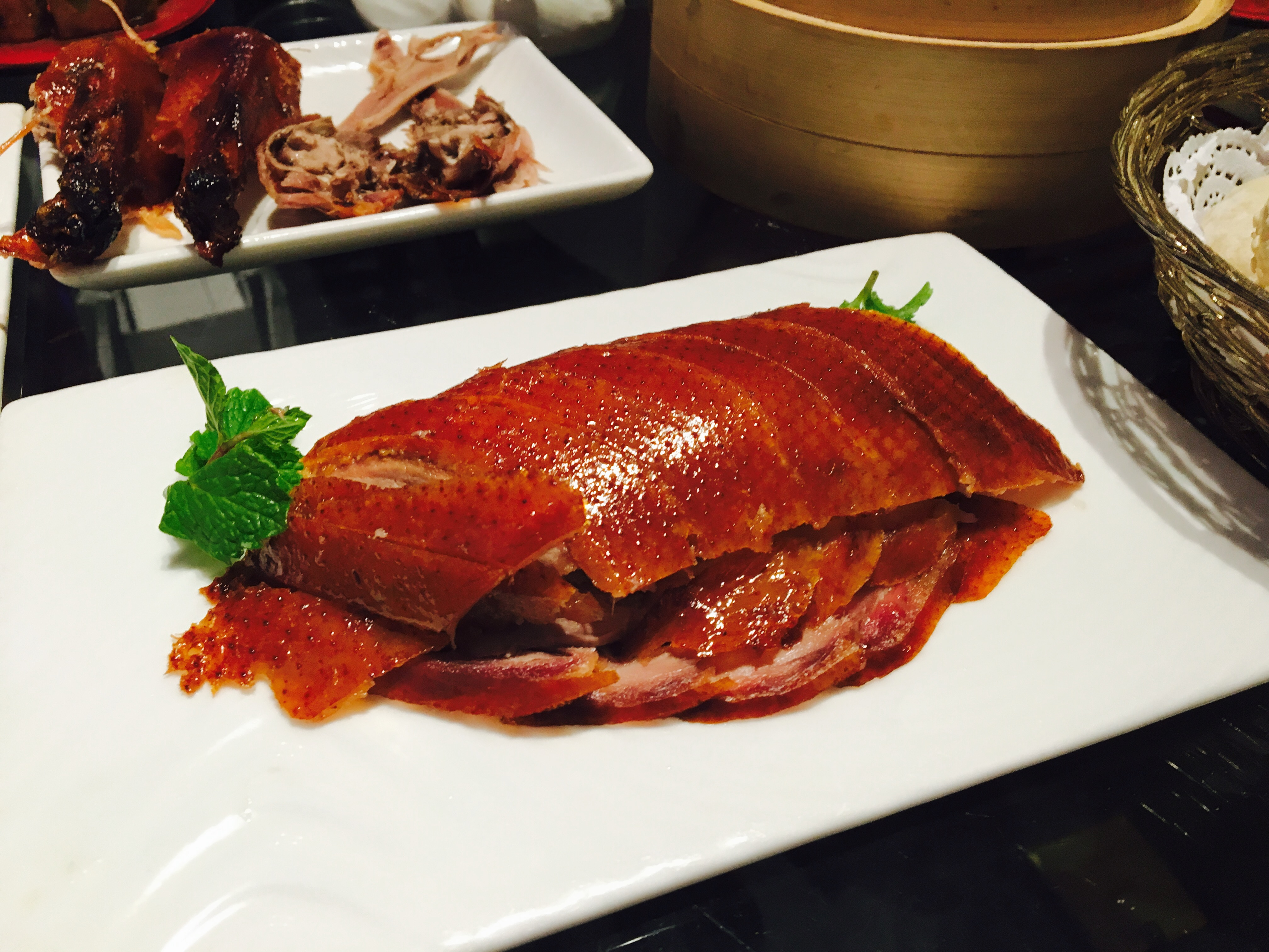 Beijing Duck sliced